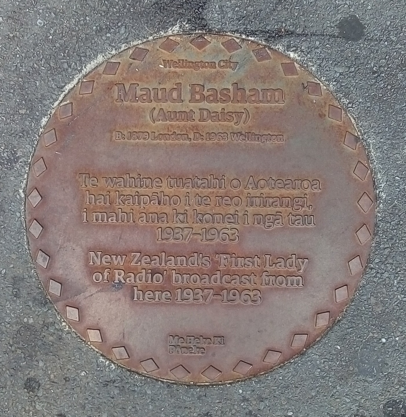 Street plaque for Maud Basham "Aunt Daisy" on Dixon Street, Wellington. Unveiled in 2018.